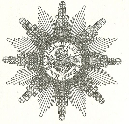 Star First Class Order of Chula Chum Kloa, Thailannd